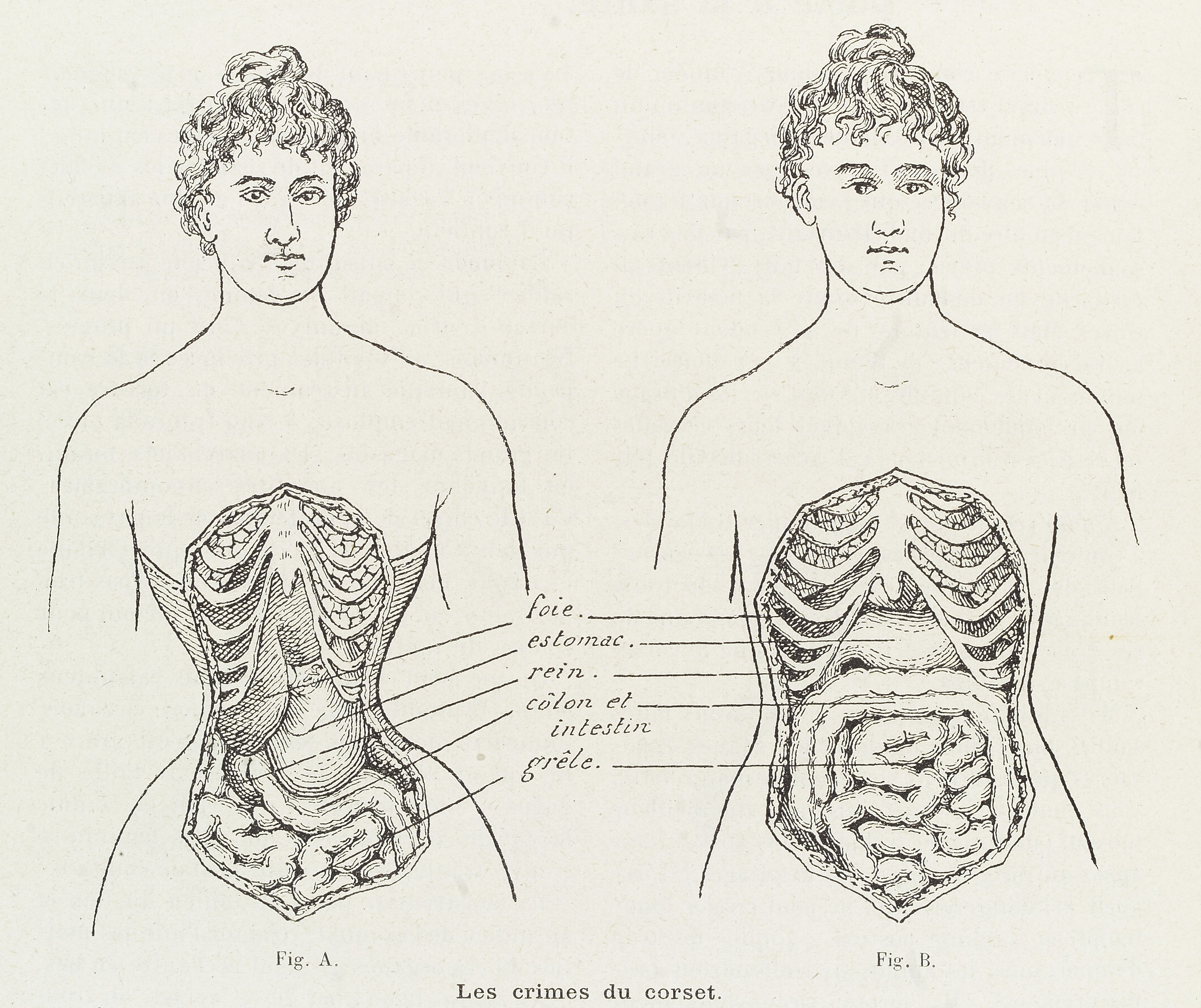 2 Illustrations to denounce the crimes of the corset and how it cripples and restricts the bodily organs in women. General Collections Keywords: Body; Congenital Abnormalities; Beauty; Intestine; waist; Corset; Physique; Ribs; Deformity; Eugenics; Ideal; Ribes; Rib; Intestines